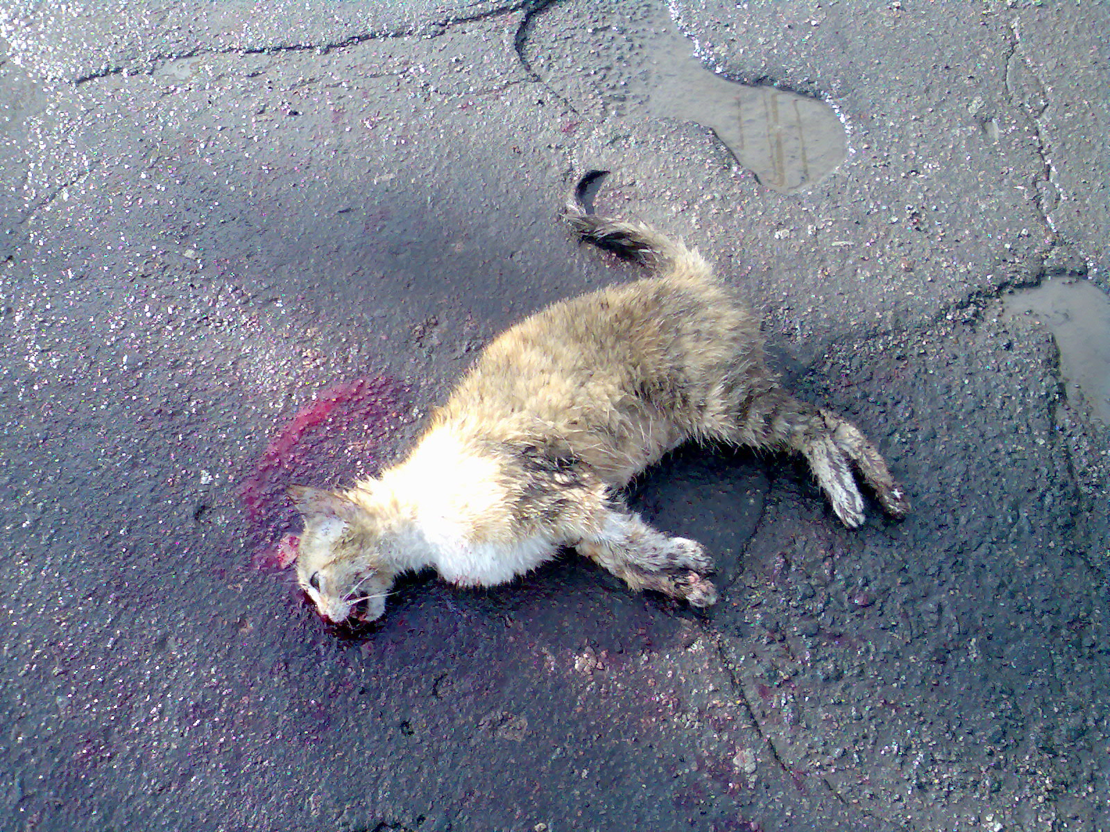 Dead cat.